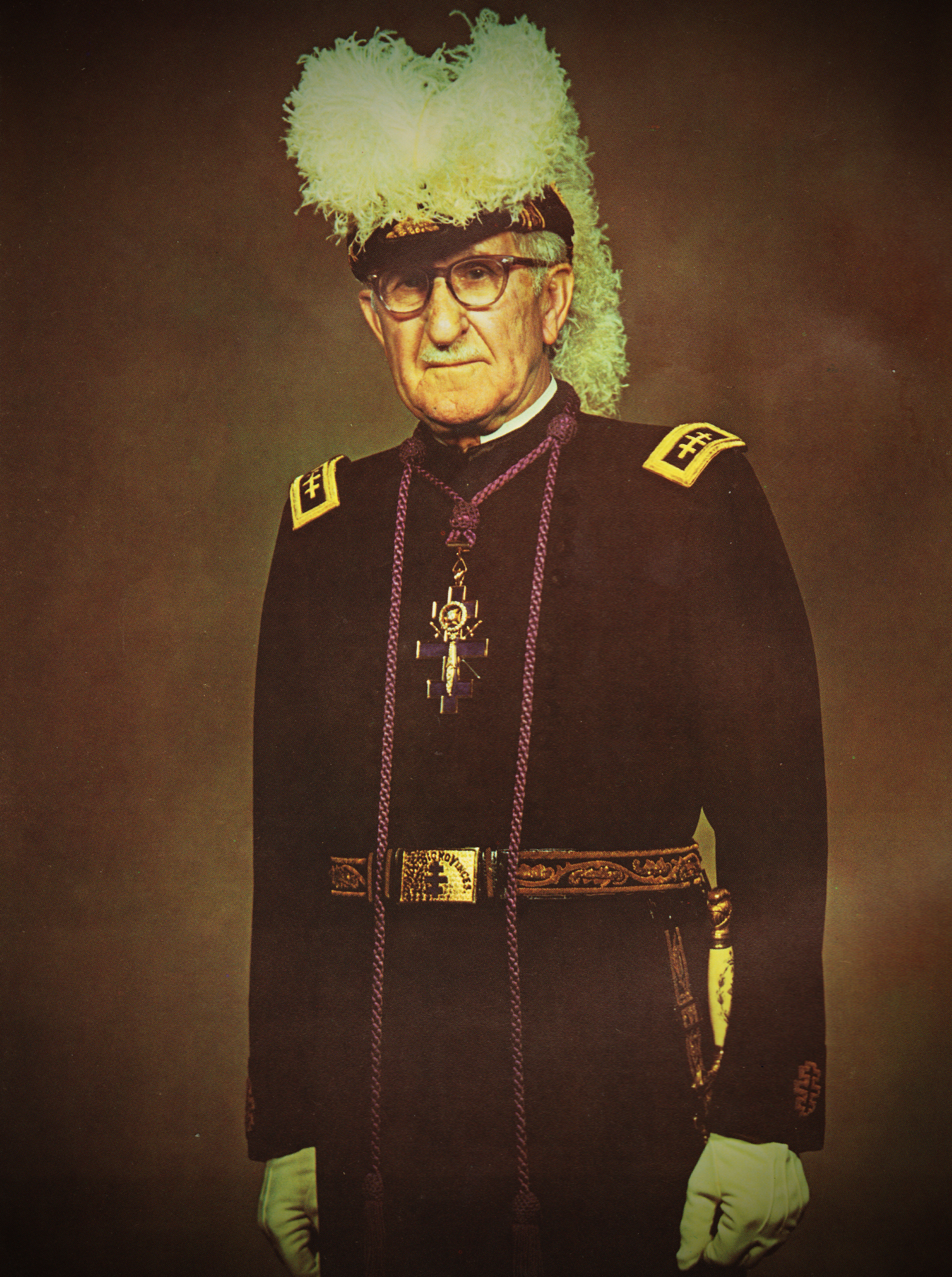 Knights Templar of the United States of America, Circa 1973